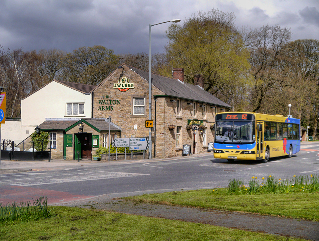 The Walton Arms at Altham. Single decker Volvo bus, Lancashire United fleet number 1102 (registration PN02HVJ), passes the Walton Arms restaurant at Altham..